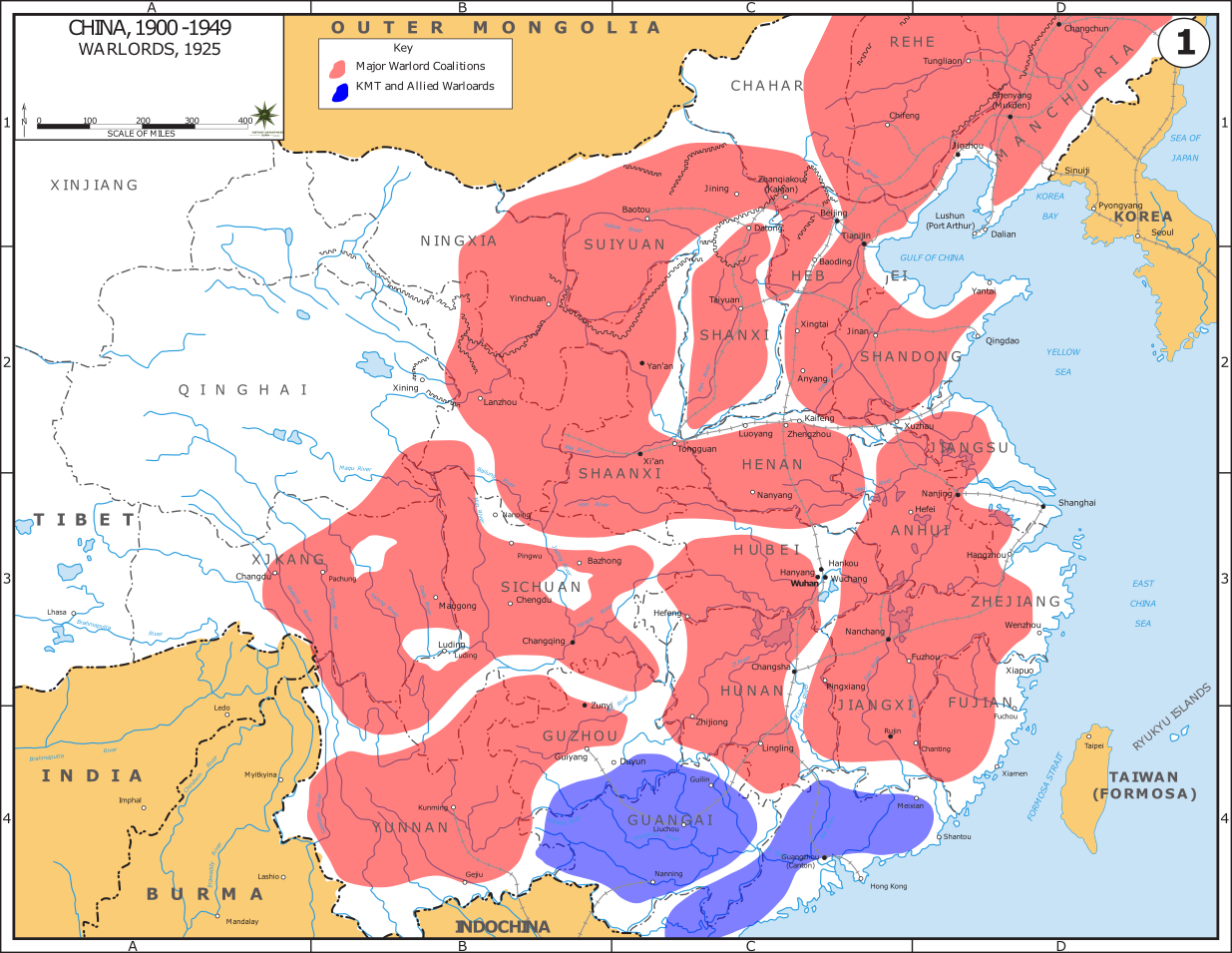 Major Chinese warlord coalitions (1925)